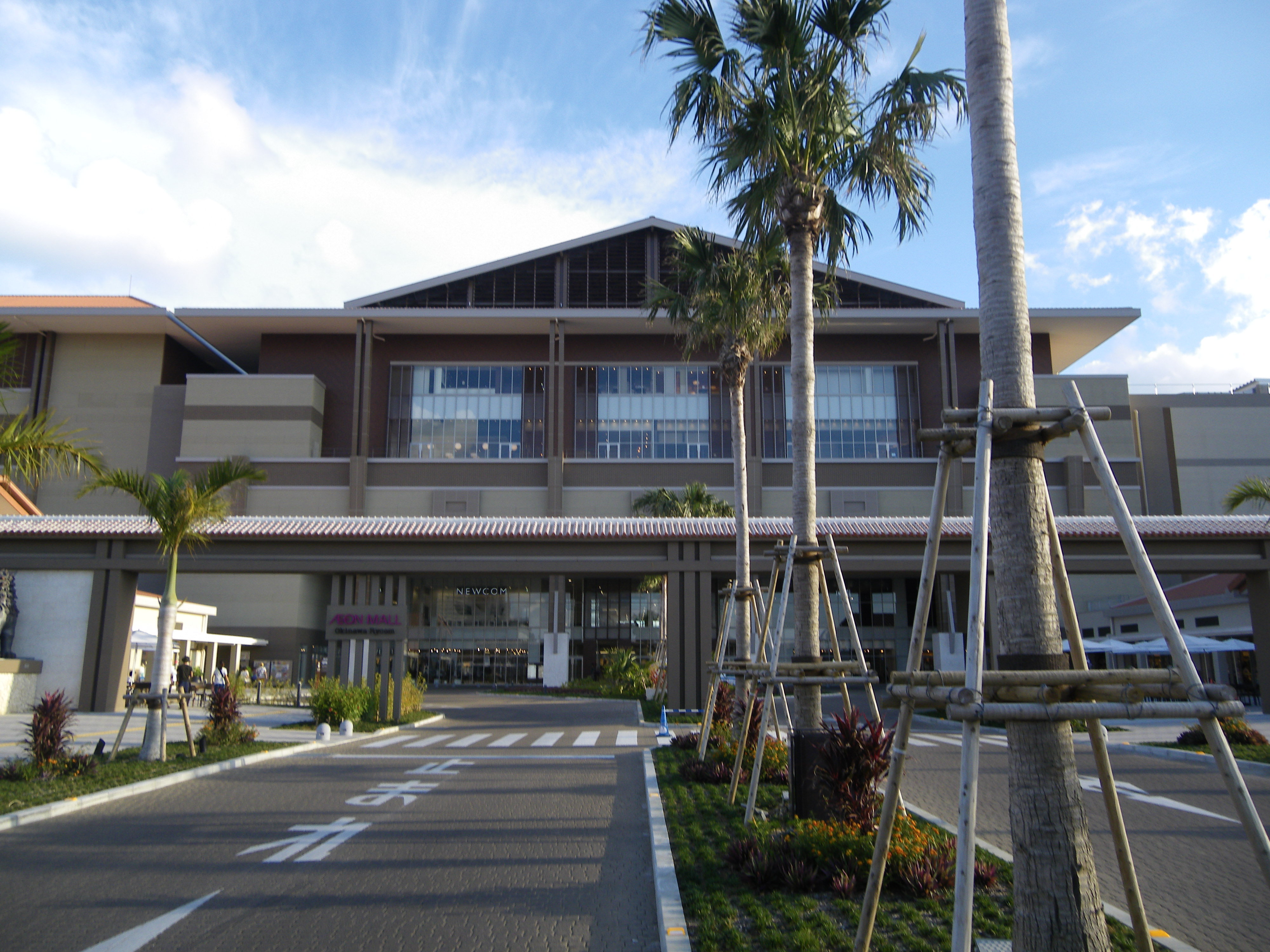 Arrival Gate, AEON Mall Okinawa Rycom